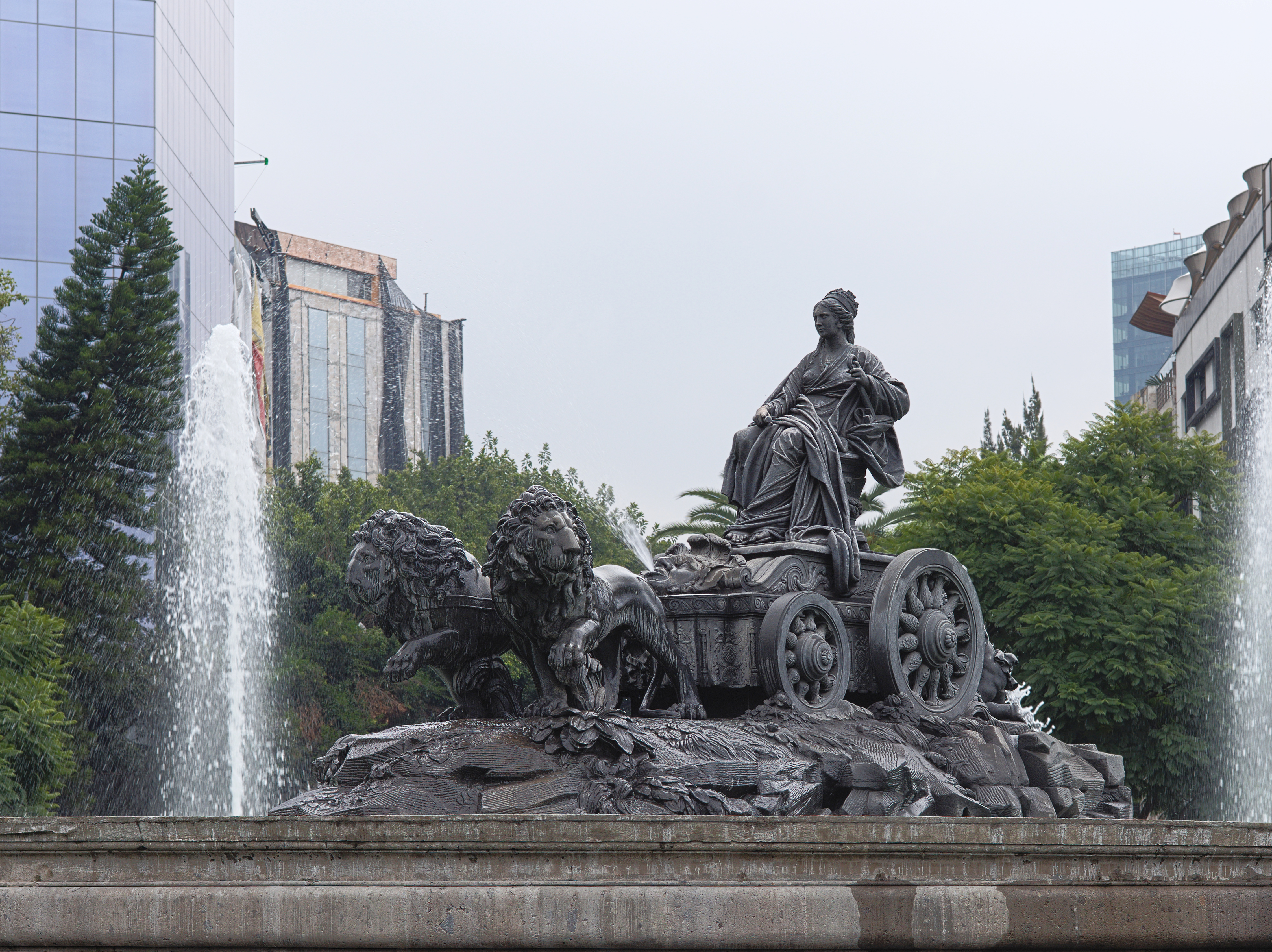 Cibeles fountain in Mexico City, México